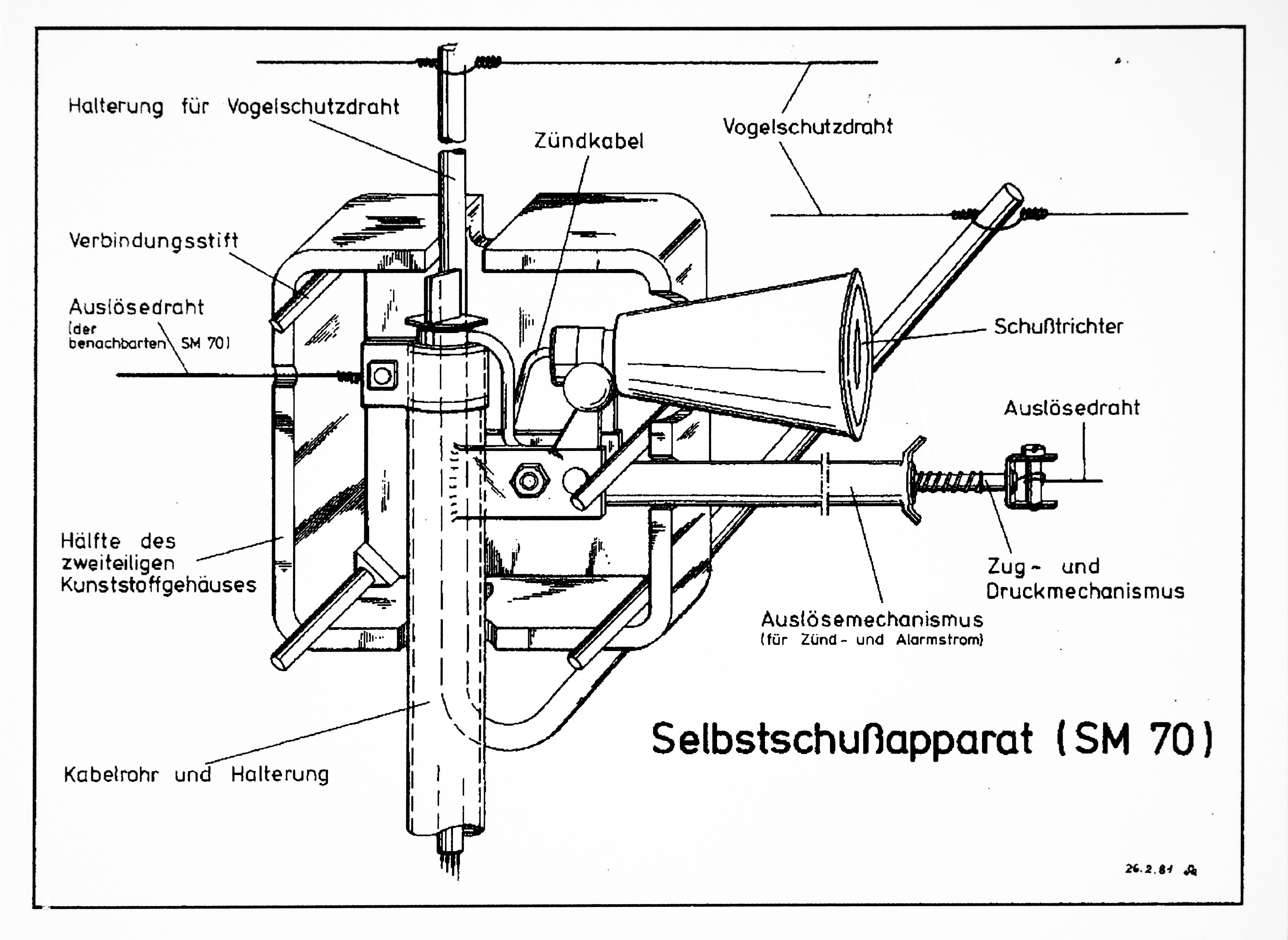 scheme of SM 70